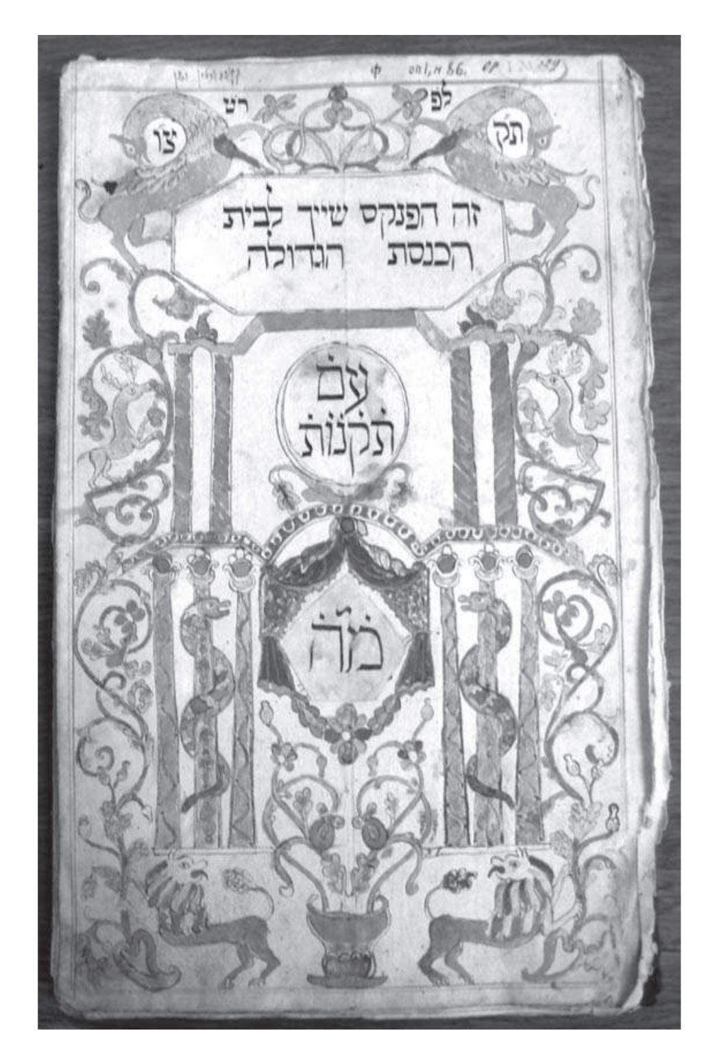 Record Book of the Great Synagogue of Starokonstantinov (Vernadsky National Library of Ukraine, Orientalia Division, Pinkasim collection, f. 123 spr. 86).